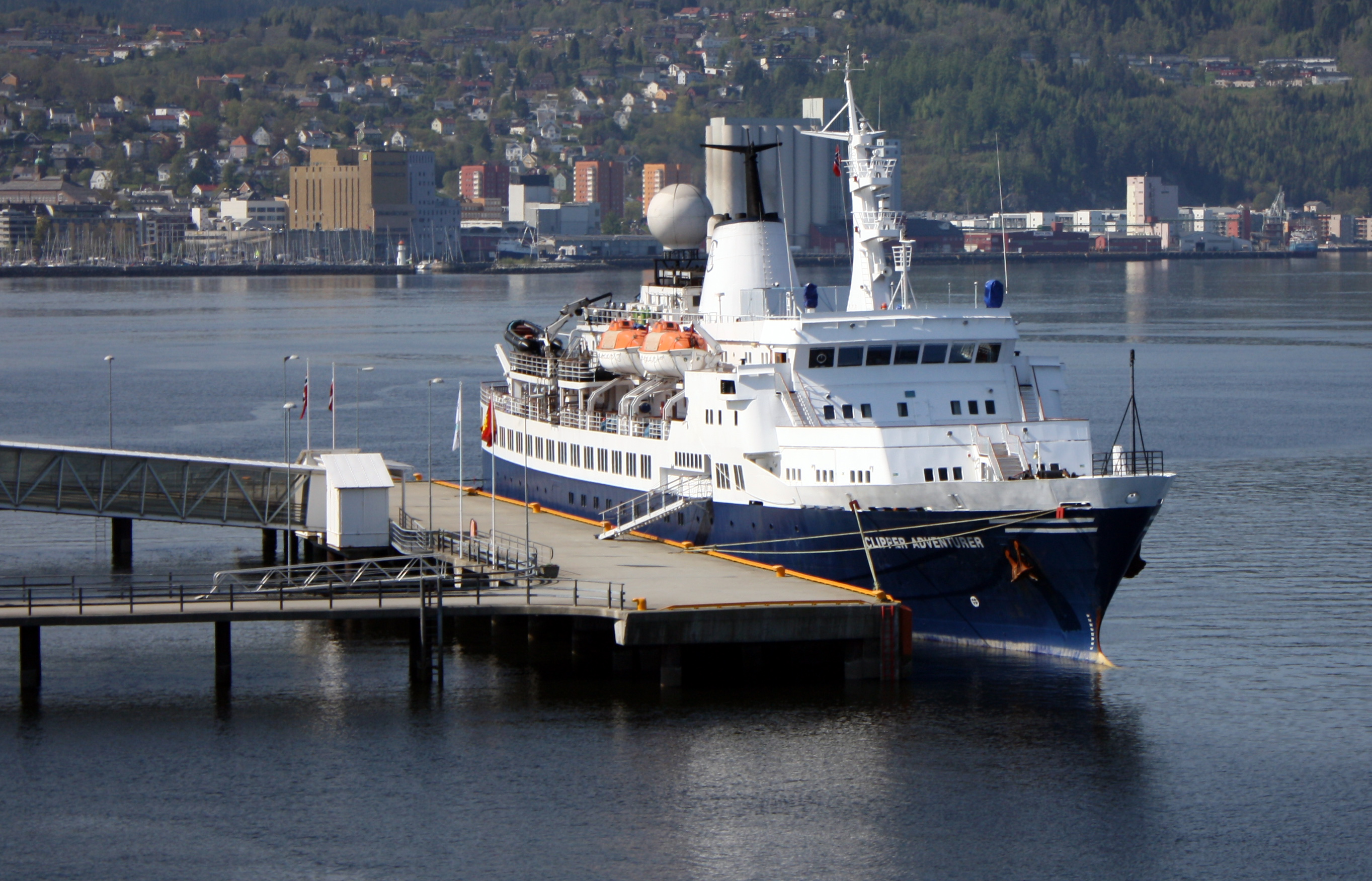 MV Clipper Adventurer in Trondheim, Norway, may 2012.